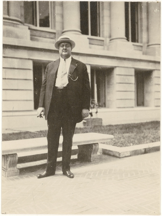 Photographer: Unknown, Non-Indian Subject: George Gustav Heye (GGH), Non-Indian, 1874-1957 Museum of the American Indian - Heye Foundation (MAI), 1916-1989 Date Created: 1917 Catalog Number: P11585 Format: Albumen print Dimensions: 3.25 x 4 in. Collection History: Presumably commissioned by George Heye to document the early work of the Museum of the American Indian. Description: George Gustav Heye posed in front of the Museum of the American Indian/Heye Foundation, 155th and Broadway, NYC Place: Museum of the American Indian/Heye Foundation, 155th Street and Broadway; New York City, Manhattan; New York County; New York; USA Site Name: Museum of the American Indian/Heye Foundation, 155th Street and Broadway Island Name: Manhattan Island Culture/People: Non-Indian See more items in: Photographic Collections Persistent URL: Repository:National Museum of the American Indian